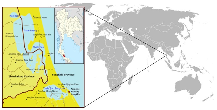 Thale Noi Thailand World Locator Map